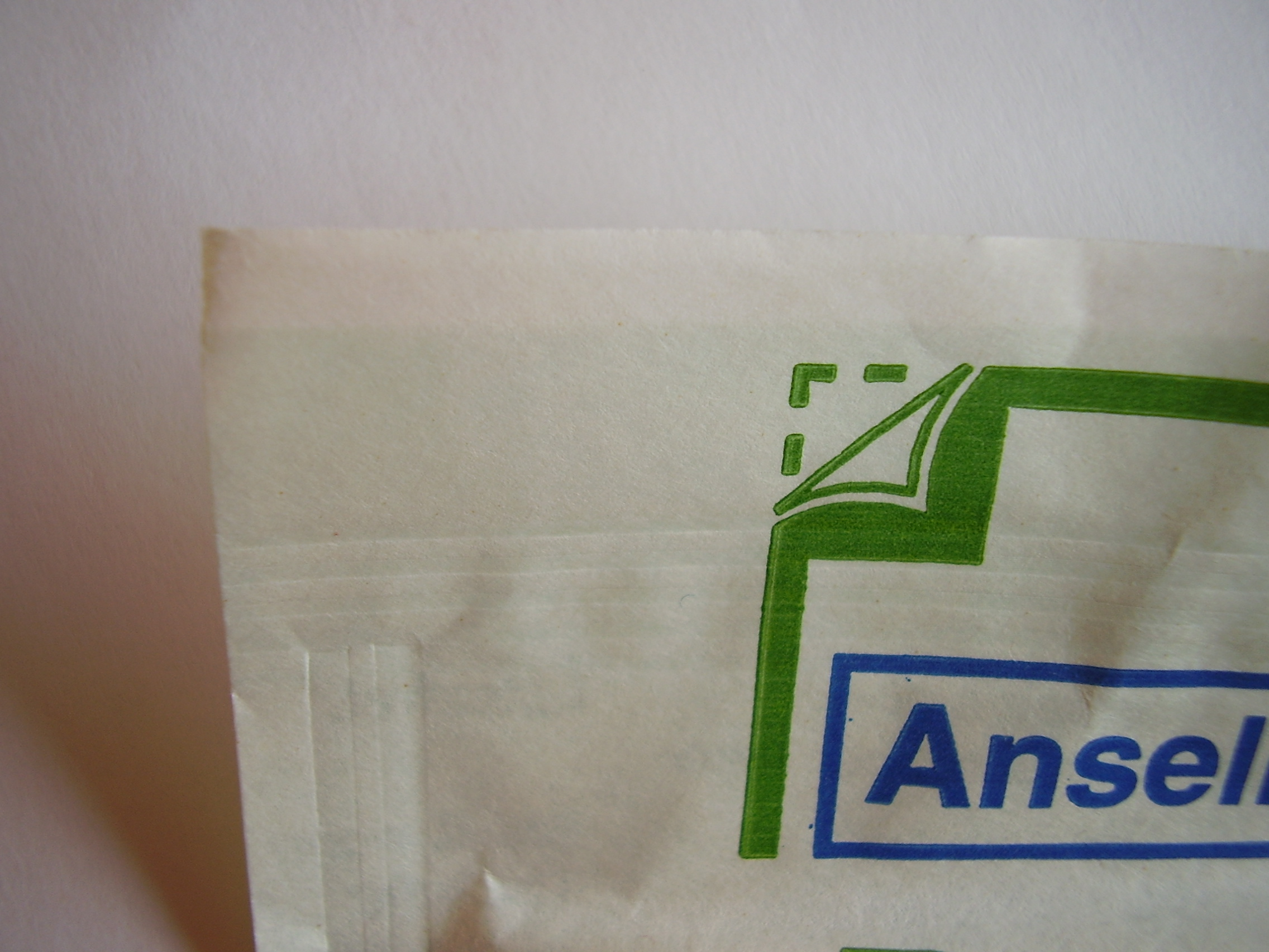 Disposable gloves; surgical gloves; chirurgische Handschuhe; steril; Latexhandschuhe